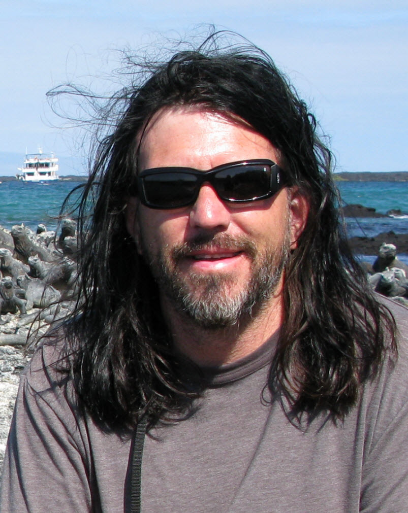 American microbial ecologist and coral reef researcher Forest Rohwer in the Galapagos. Photographer: Anca Segall.